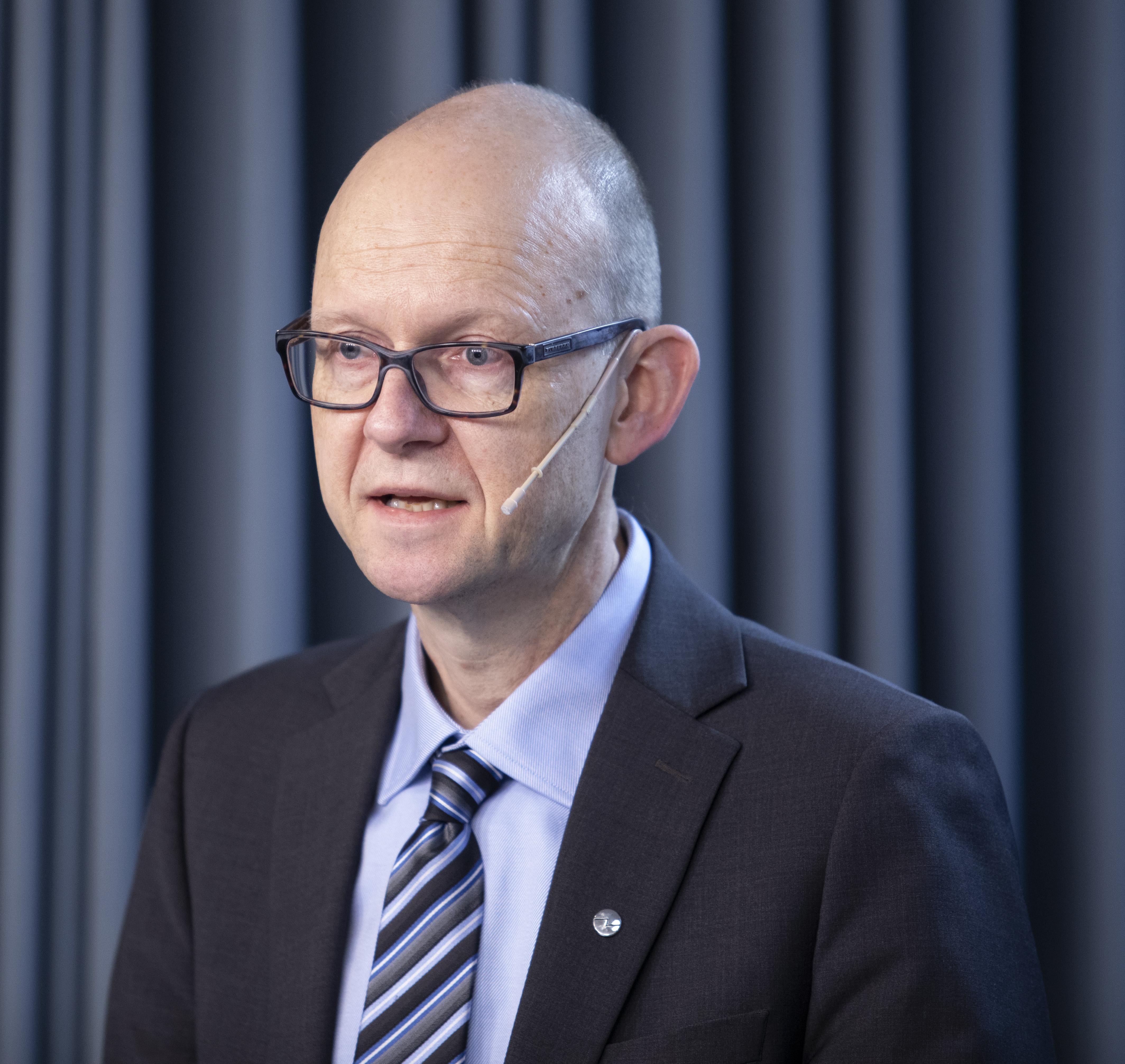 Geir Axelsen, leder av TBU, la fram grunnlaget for inntektsoppgjørene 2020. Her fra pressekonferansen mandag 17. februar 2020. Foto: Jan Richard Kjelstrup / ASD